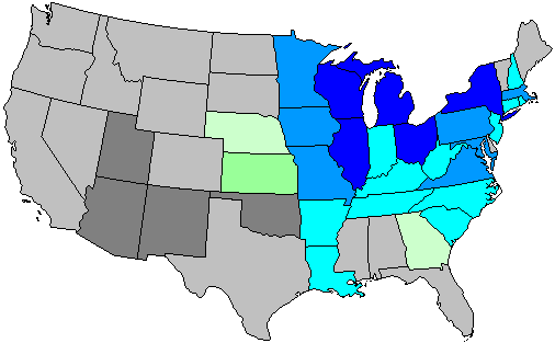 Summary of party change of U.S. house seats in the 1890 House election. Stripes indicate a tie between the gains of two or more parties. Legend: 6+ Democratic seat pickup 3-5 Democratic seat pickup 1-2 Democratic seat pickup 1-2 Republican seat pickup 3-5 Republican seat pickup 6+ Republican seat pickup 1-2 Populist seat pickup 3-5 Populist seat pickup Note: years ending in 2 may have inconsistent results due to redistricting.